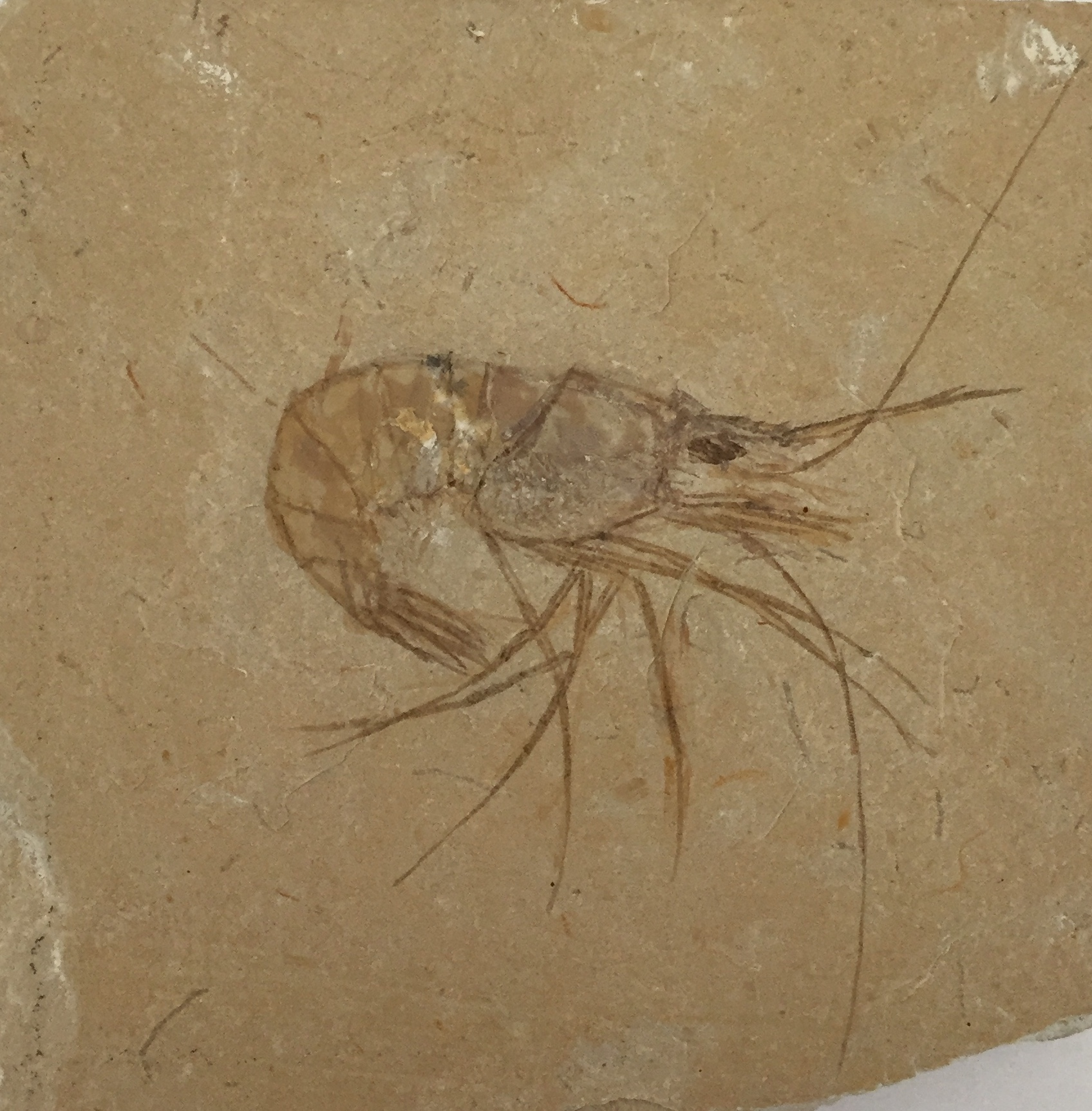 Carpopenaeus callirostris, a fossil prawn.